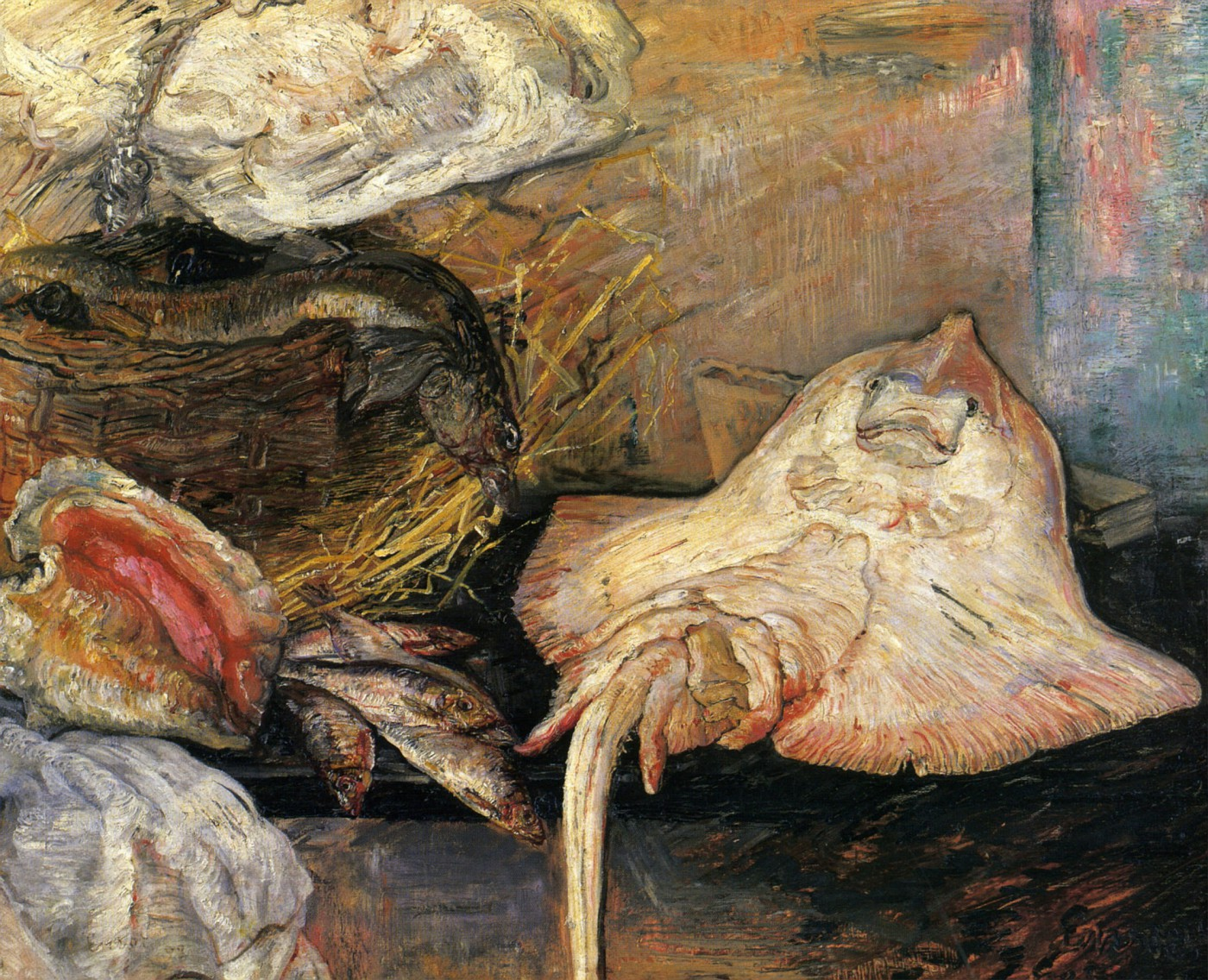 The fish stripes / La Raie